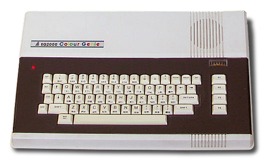 EACA Colour Genie, an early-1980s microcomputer